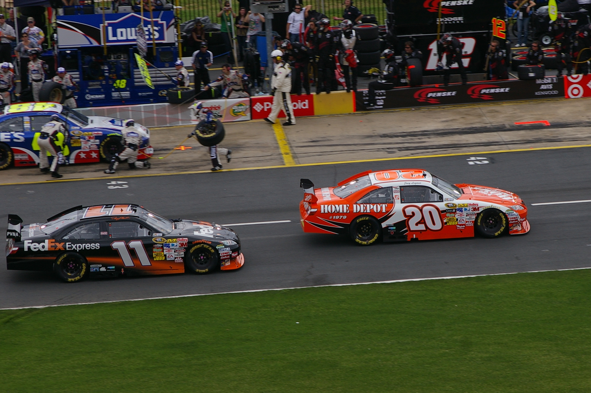 Denny Hamlin and Joey Logano drving down pit road in the 2009 Coca-Cola 600